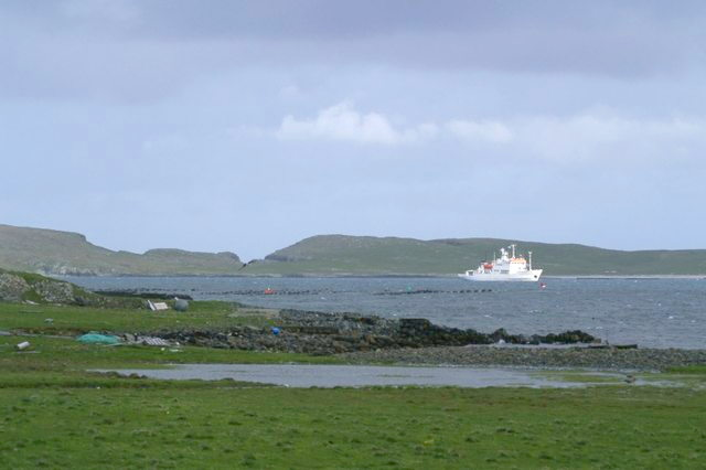 Balta Sound A small pool above the beach along the shore at Hamar, with a Russian cruise ship moored in Balta Sound, the sound separating Balta isle from Unst.